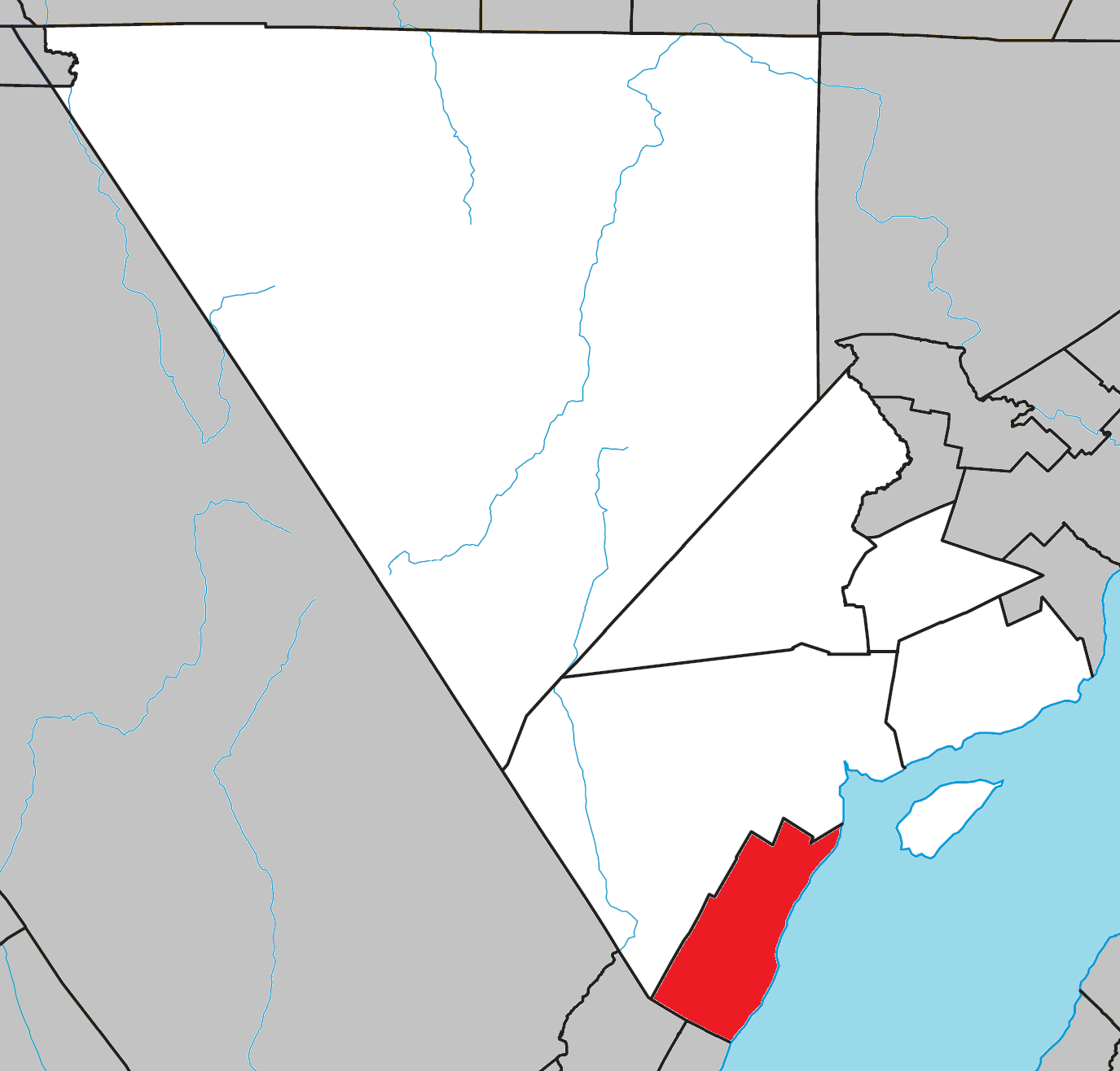 Location of Petite-Rivière-Saint-François, Quebec within Charlevoix Regional County Municipality.